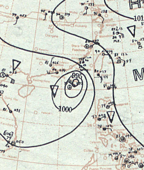 Surface weather analysis of a typhoon near Hong Kong on September 1, 1937.